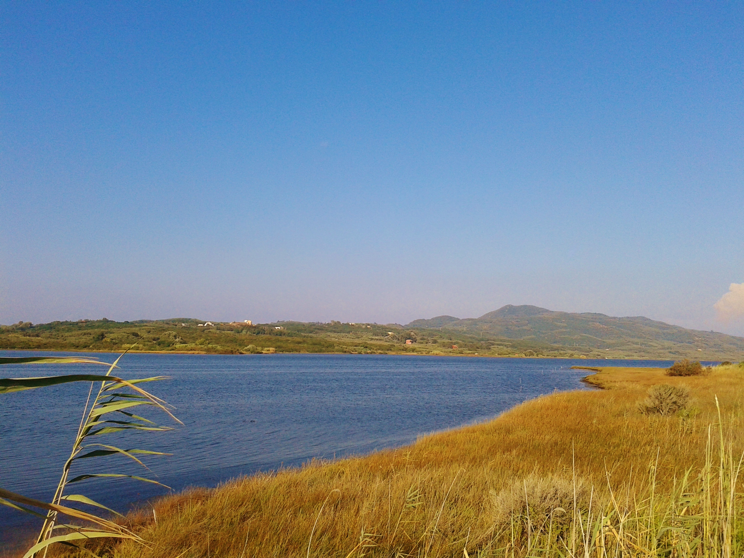 This is a photography of Natura 2000 protected area with ID GR2230002